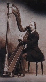 John Thomas (1826–1913), a Welsh composer and harpist, known by the bardic name Pencerdd Gwalia (Chief of the Welsh minstrels). Extracted from the artwork for the CD boxed set Caneuon John Thomas, Pencerdd Gwalia by Elinor Bennett